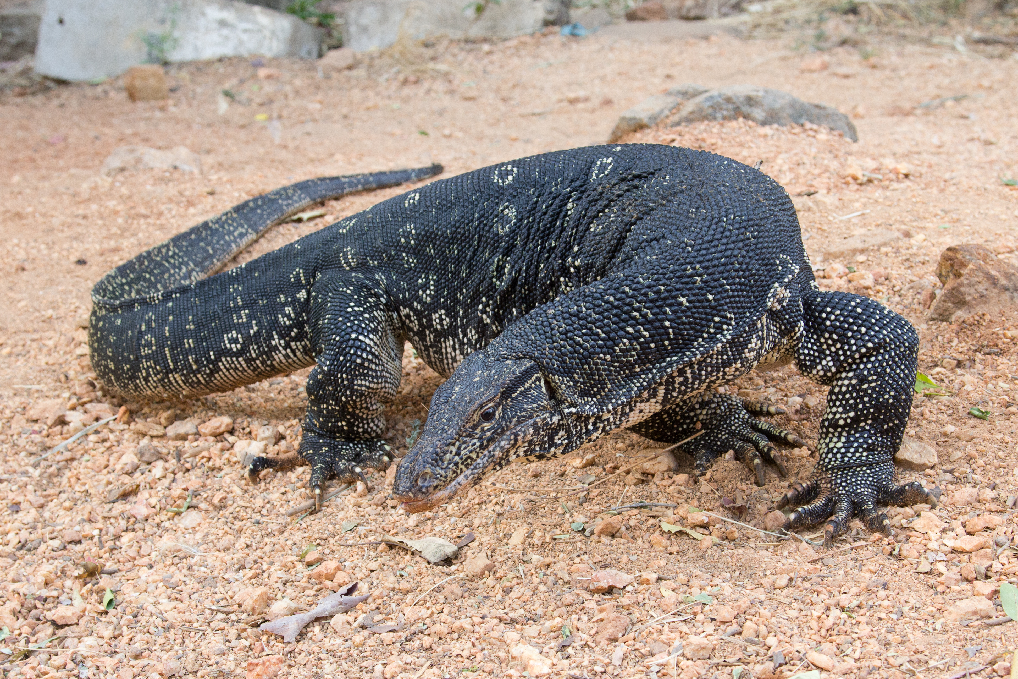 Wild water monitor (Varanus salvator) near Polonnaruwa, Sri Lanka.